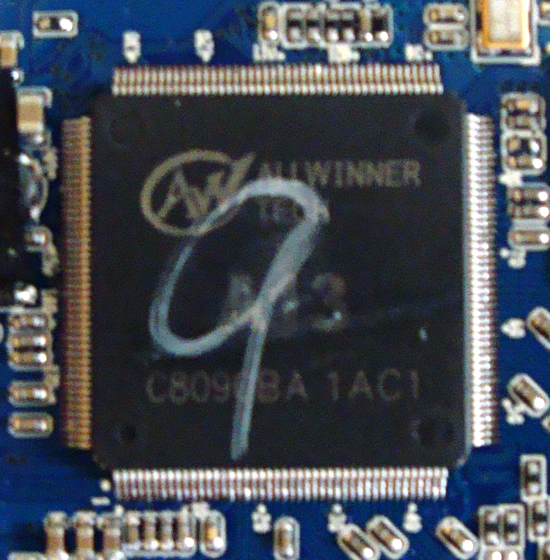 Allwinner A13 processor chip as seen on a low-end tablet.